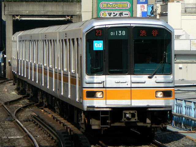 Tokyo Metro 01 series train (set 38) approaching Shibuya Station, Tokyo Metro Ginza Line